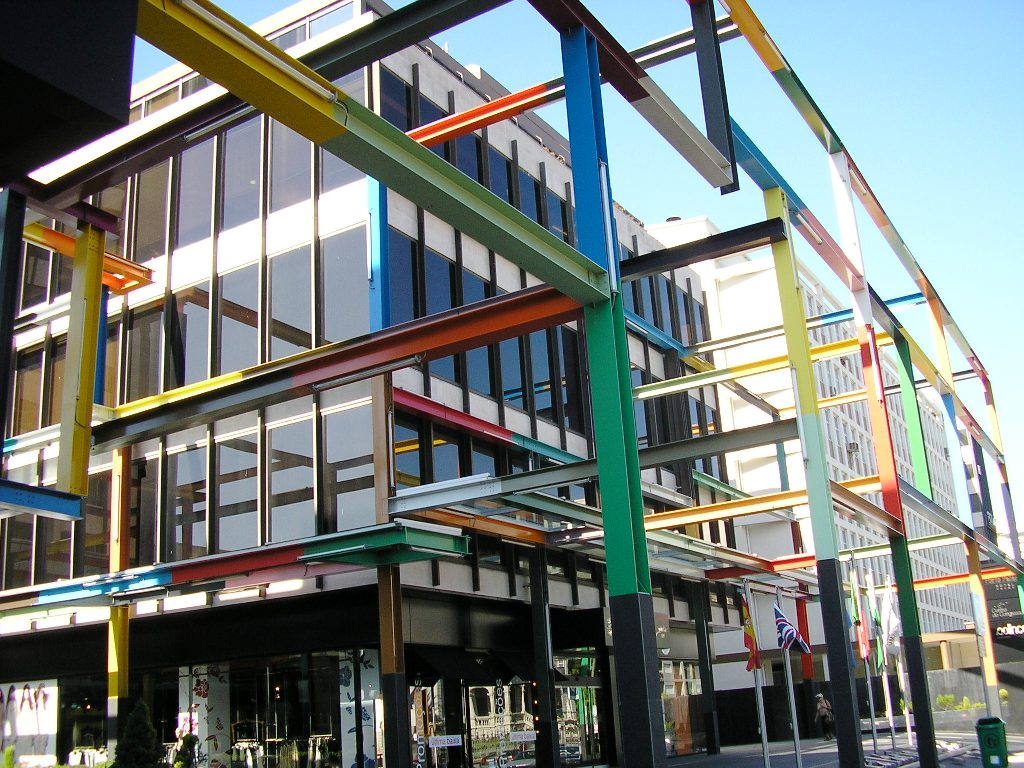 Sculpture of Pedro Cabrita Reis in Porto, Portugal